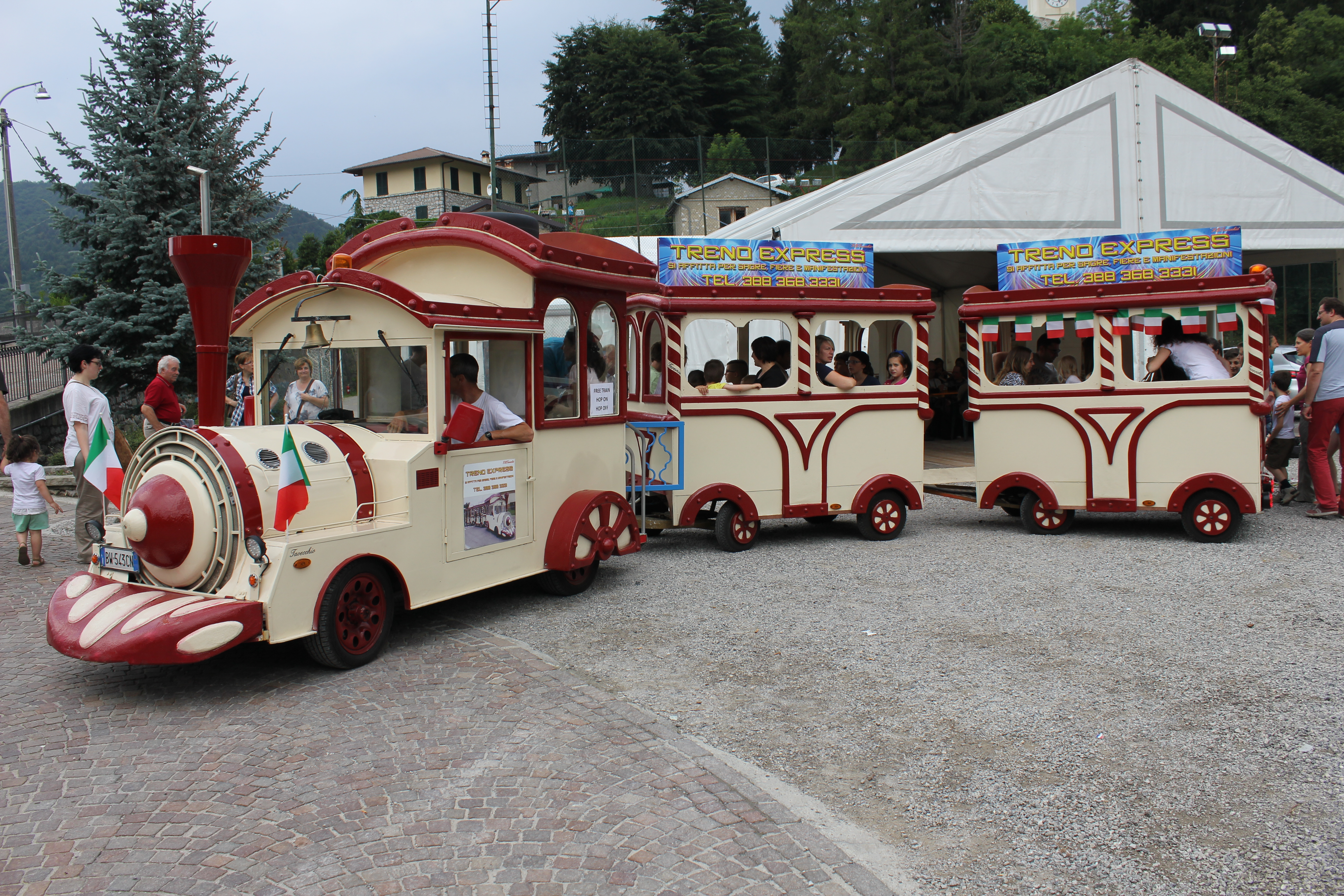 The small train at the tensile structure, one of its stops during Wikimania 2016.